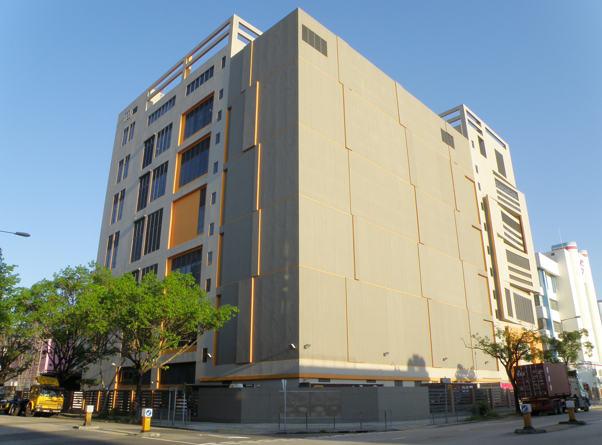 Café de Coral Central Processing Plant 1 in Tai Po, Hong Kong.